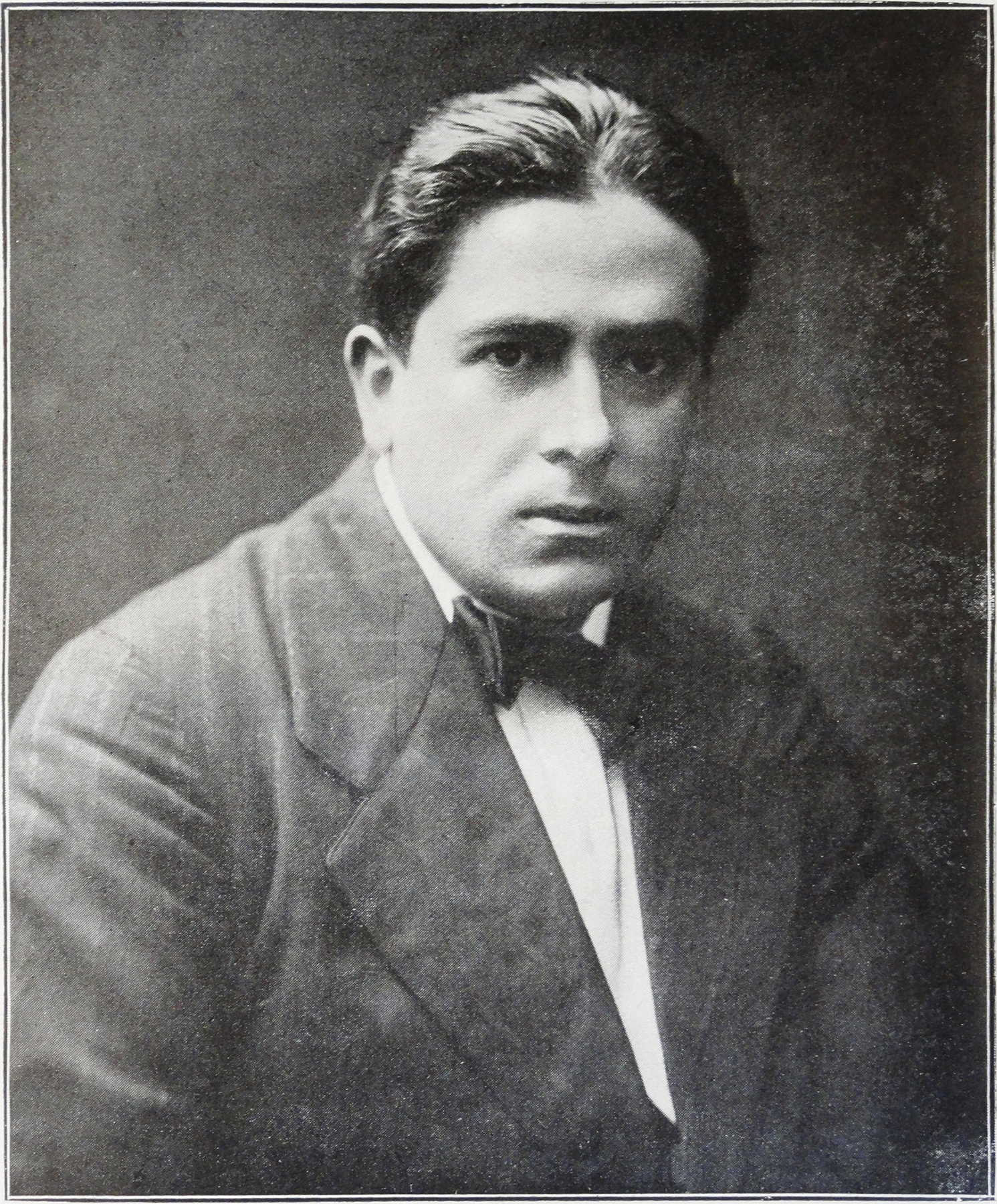 Francis Picabia, photograph published The Cubist Painters, Aesthetic Meditations (Les Peintres cubistes), by Guillaume Apollinaire, 1913